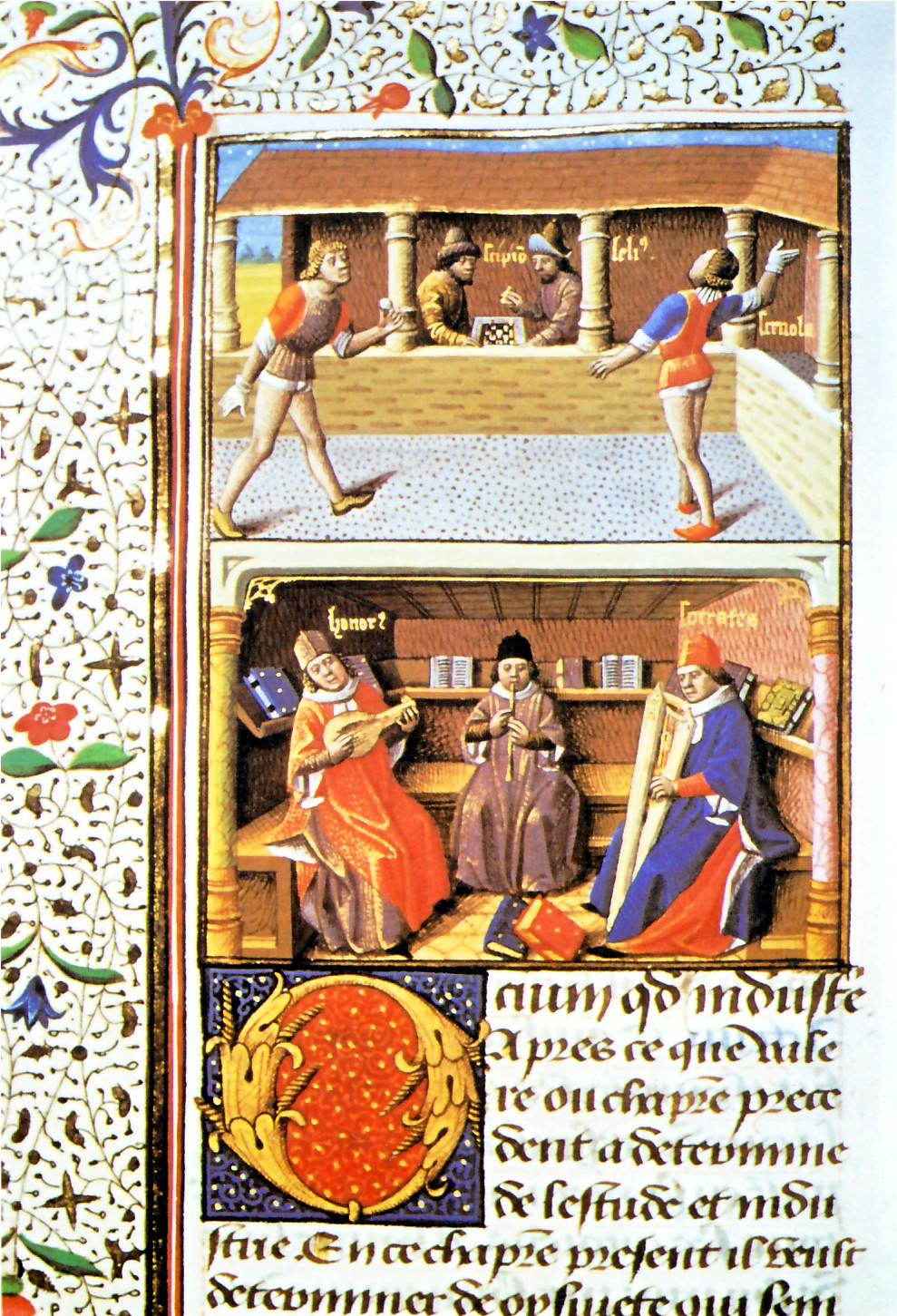 First known depiction of a medieval tennis court. From a french translation of Valerius Maximus, original today in British Library.